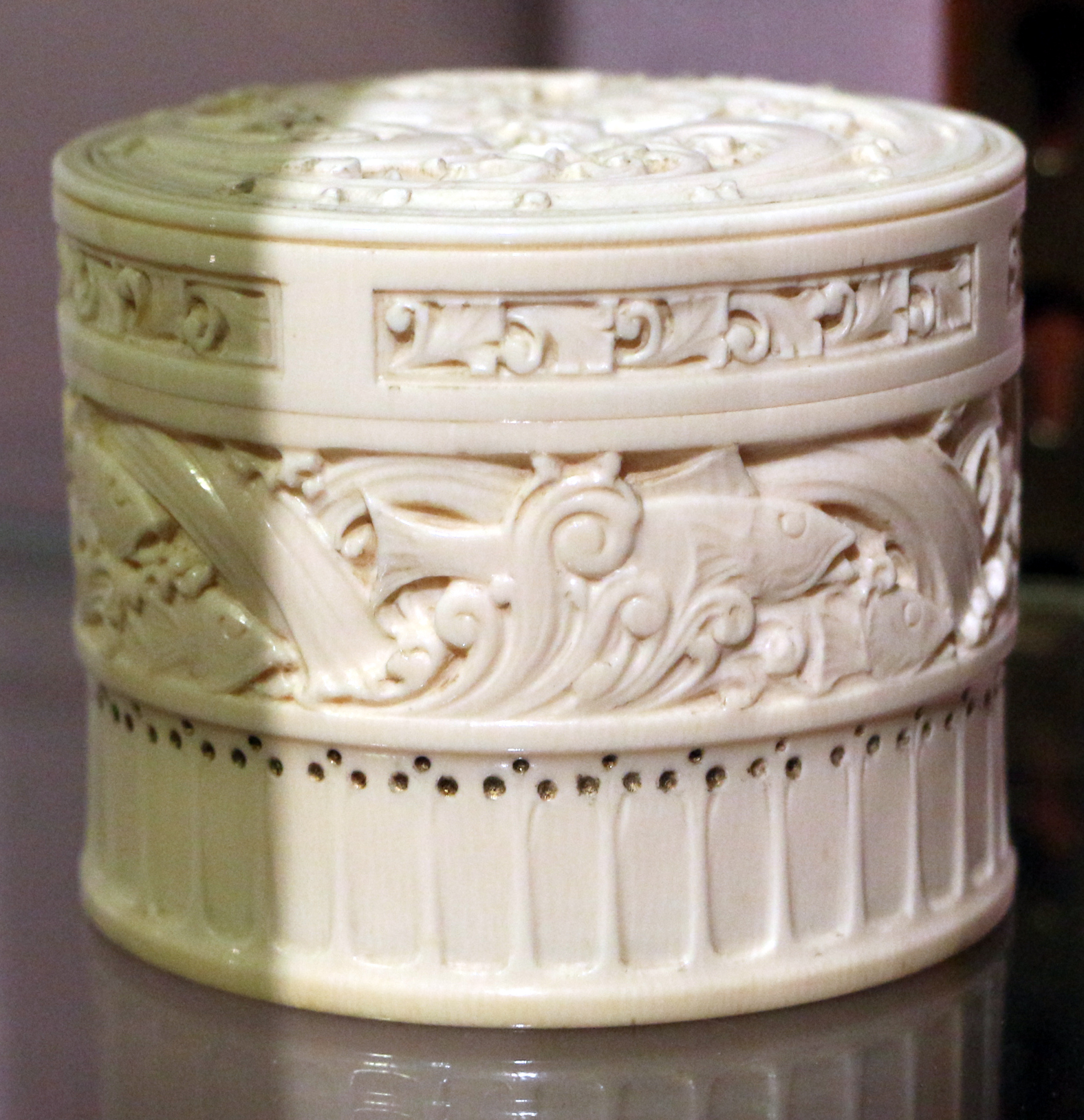 Decorative arts in the Musée d'Orsay